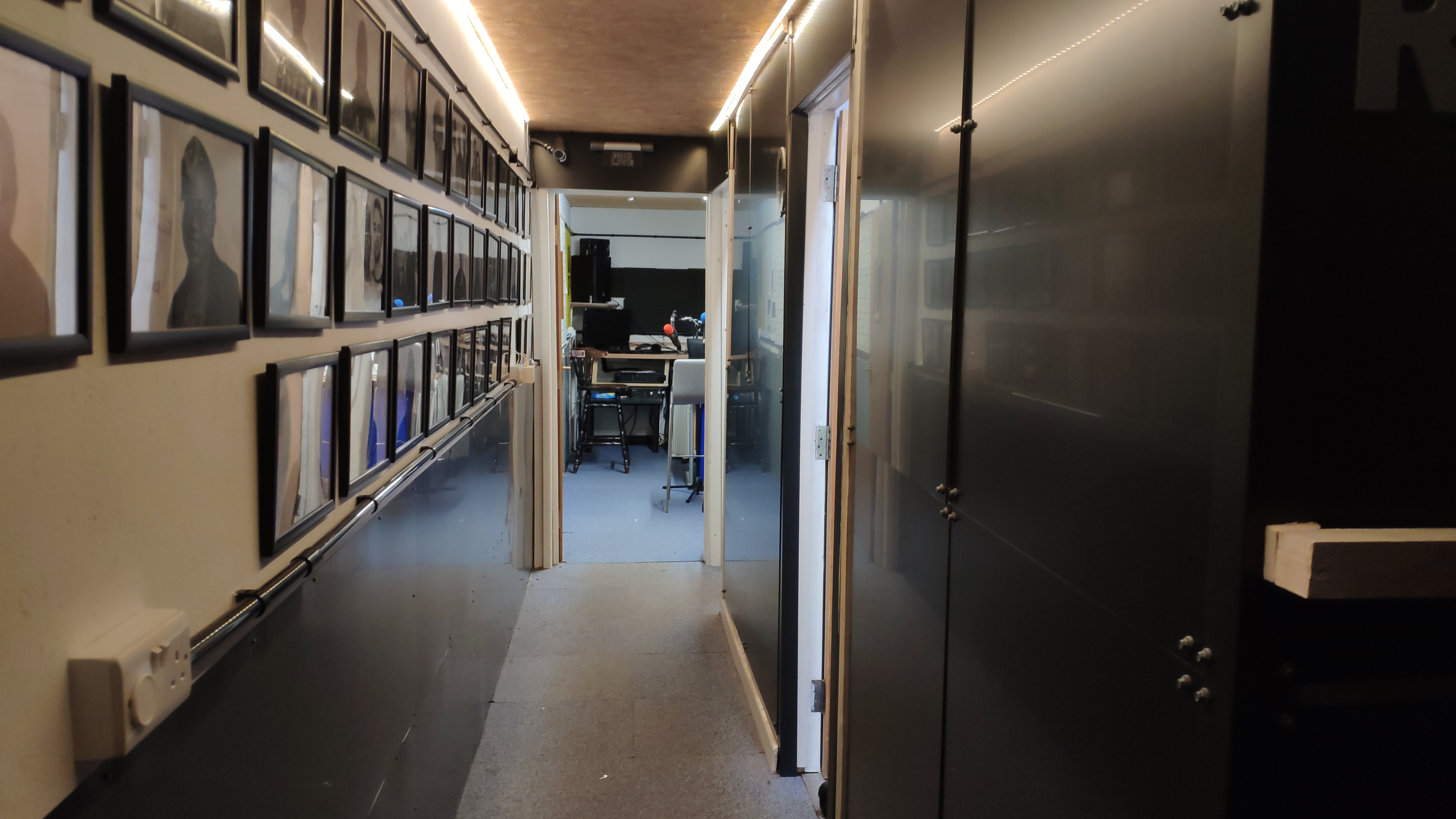 The Corridor leading to the main studio. 2 back-up studios are on the right hand side.